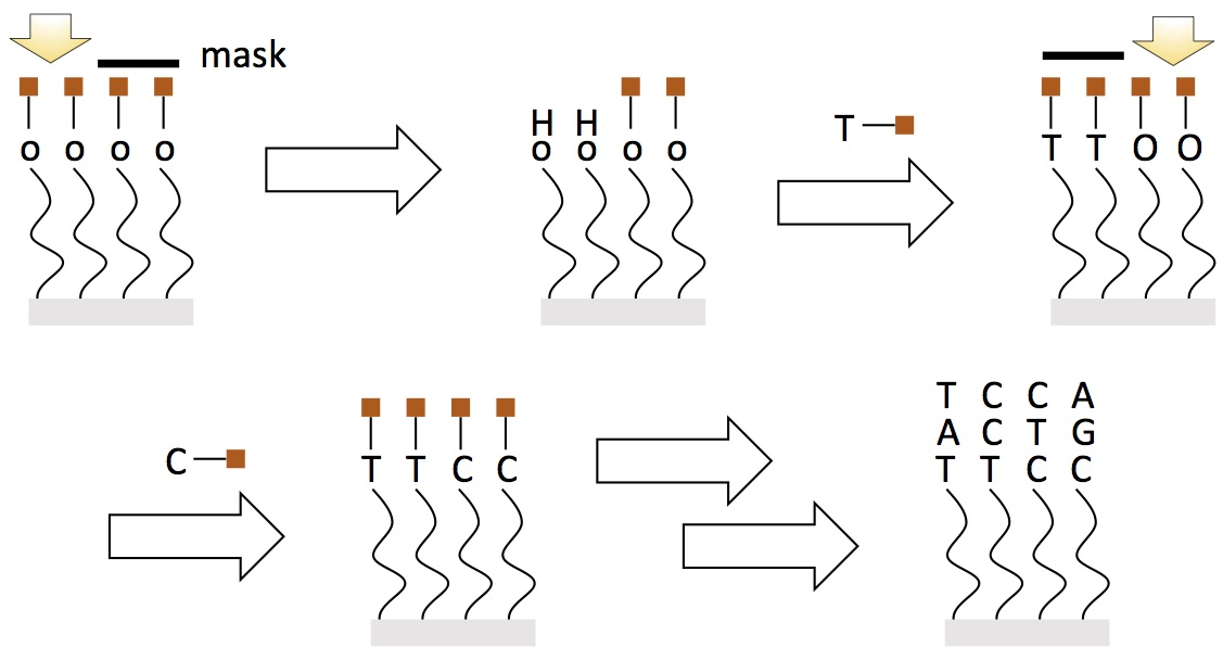 multifunctional surface